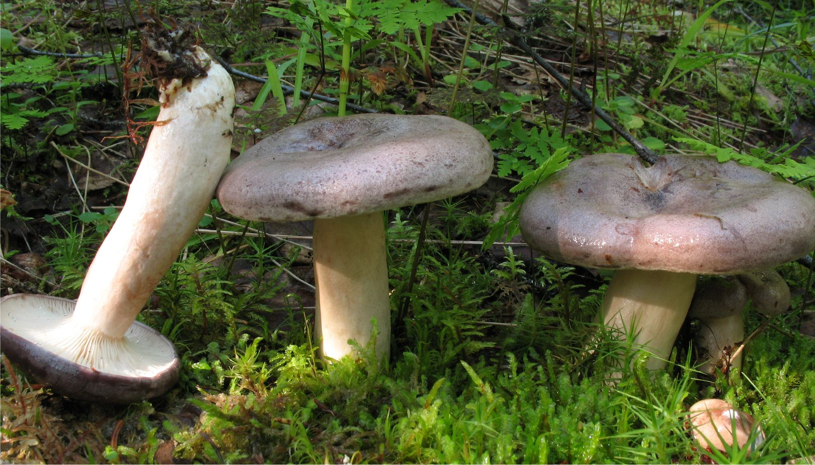 Fruit bodies of the fungus Lactarius trivialis (Fr.) Fr. Specimens found in Vojmsjön, Vilhelmina, Lapland, Sweden.